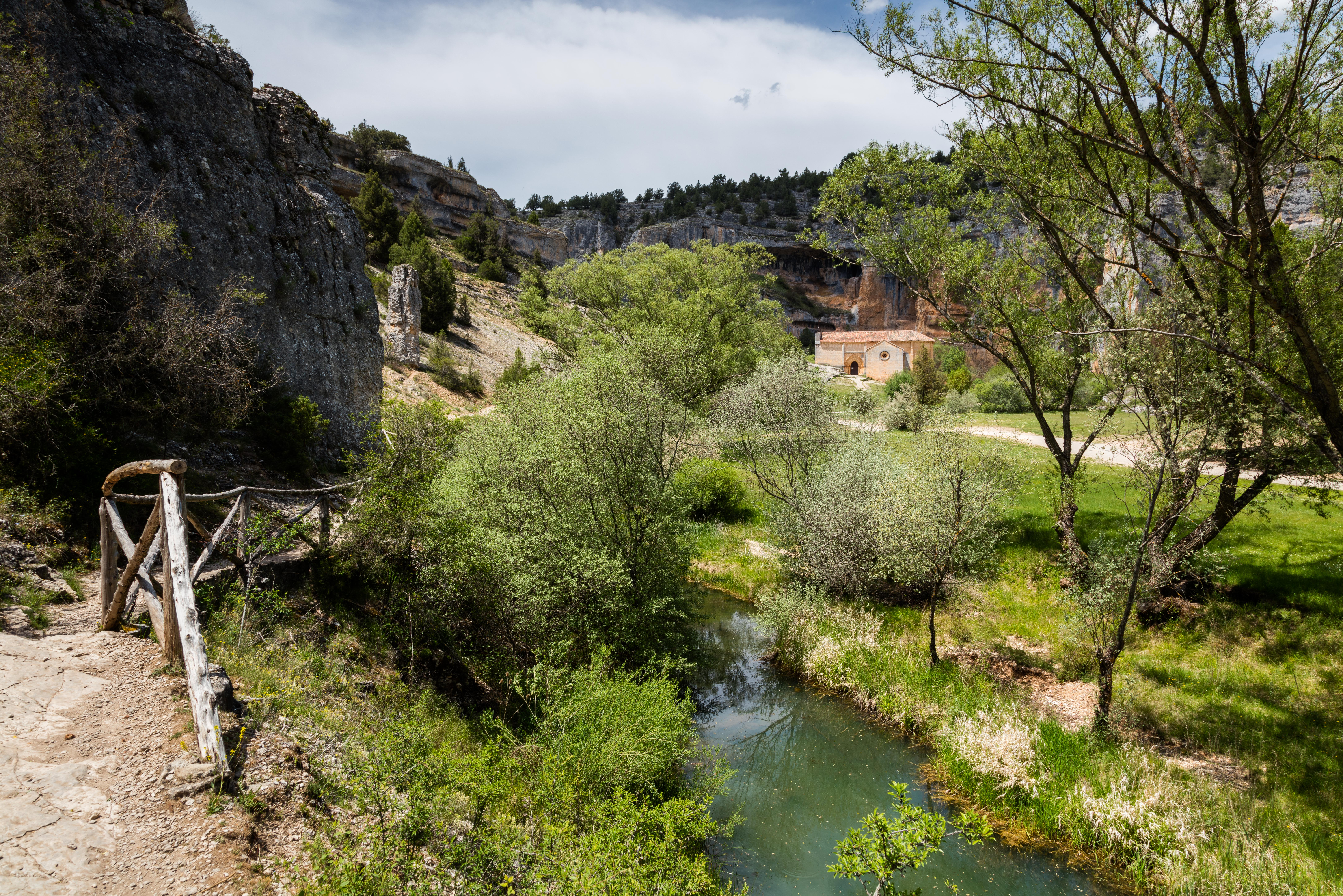 Hermitage of St Bartholomew, Canyon of the Lobos River Natural Park, Soria, Spain